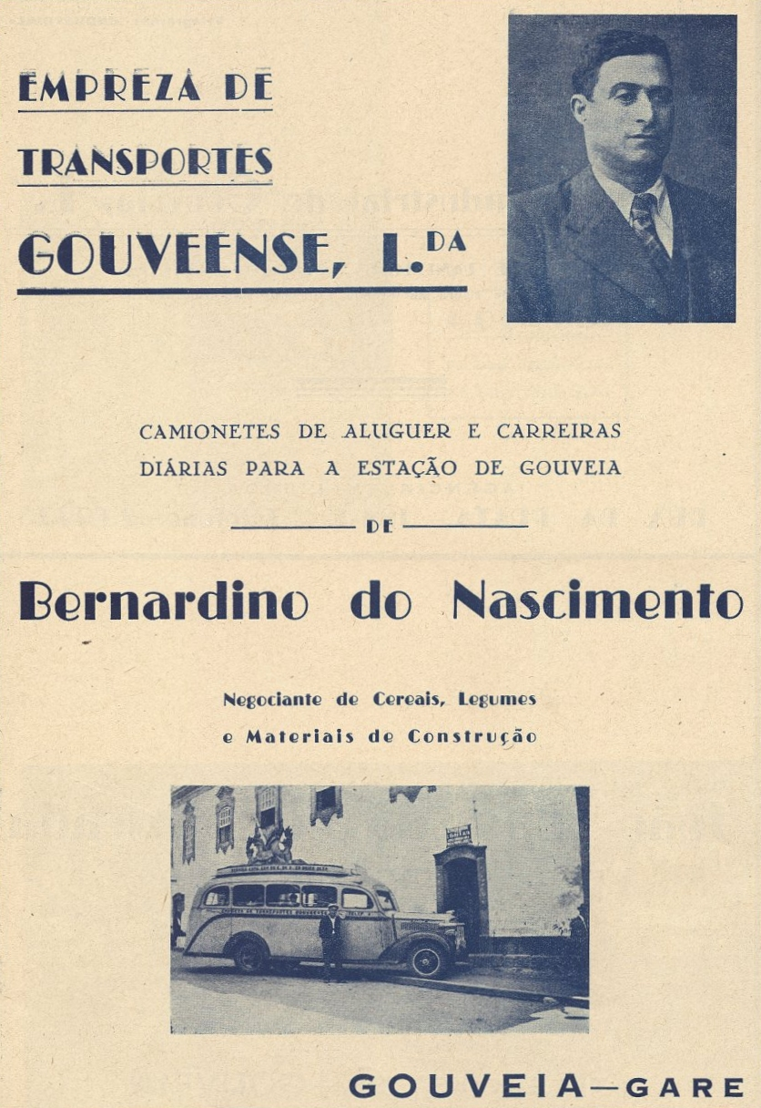 Advertisement for the Empreza de Transportes Gouveense (Gouveia Transport Company), that ran a bus line from the train station to the town of Gouveia, in Portugal. This image was published in the Gazeta dos Caminhos de Ferro magazine No. 1340, of 16th October 1943, and scanned by the Hemeroteca Municipal de Lisboa.